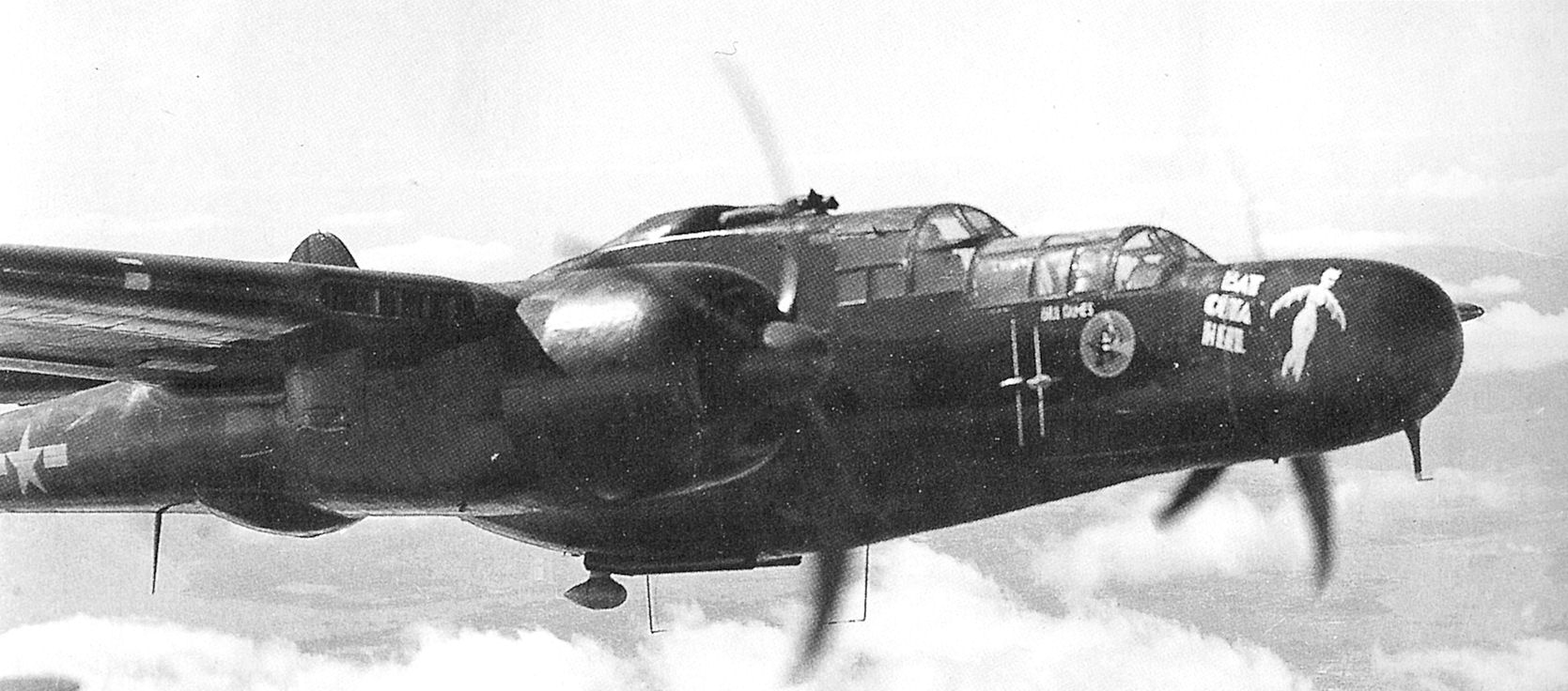 548th Night Fighter Squadron Northrop P-61A-11-NO Black Widow 42-5609 Bat Outa Hell. Declared excess 5 August 1945